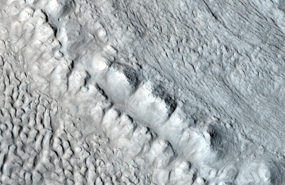 Close up of glacier in Ismenius Lacus, as seen by hirise under HiWish program. Location is 42.2 N and 49.4 E.